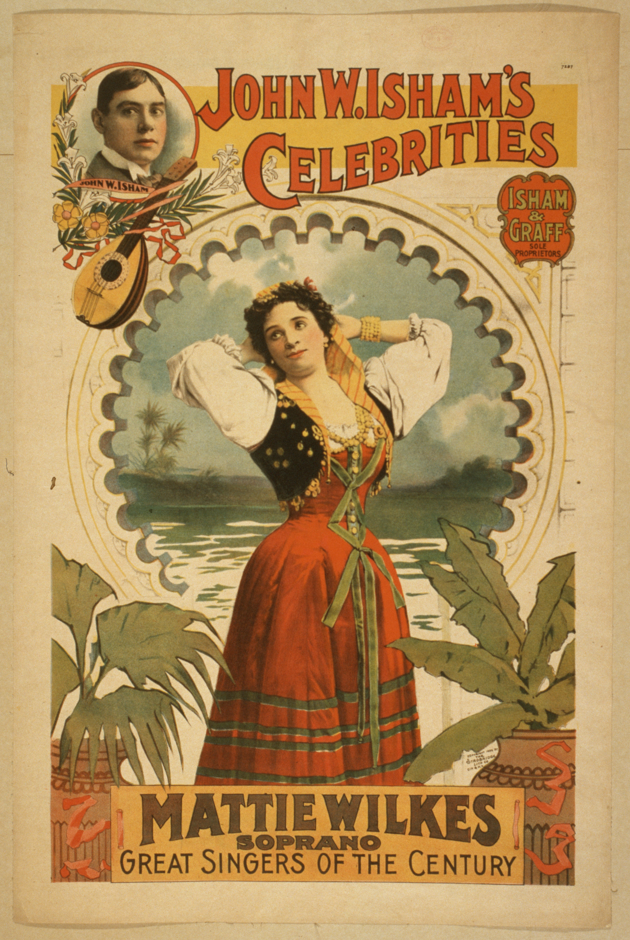 Poster for Mattie Wilkes, Soprano, presented by John W. Isham